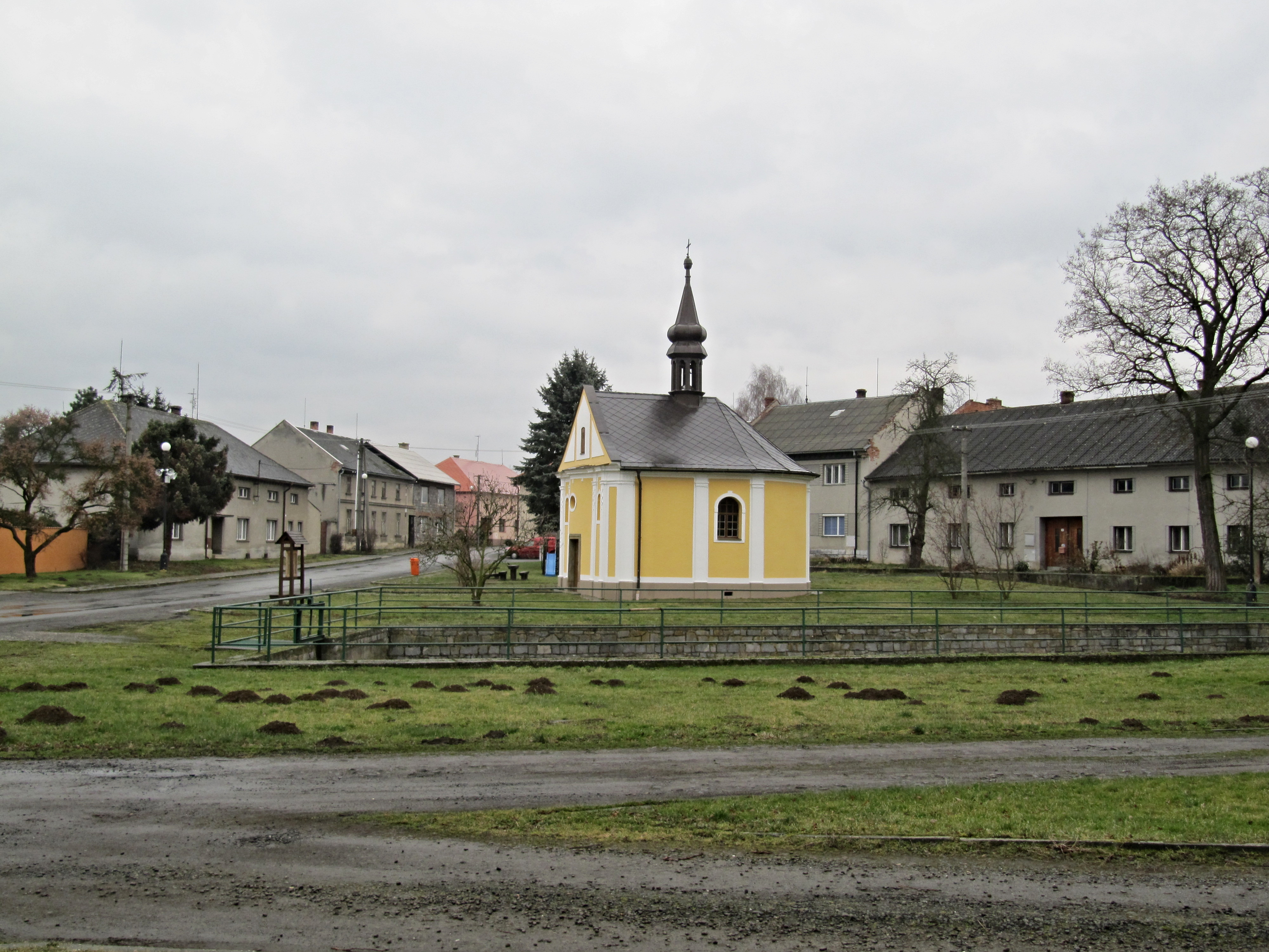 Tršice, Olomouc District, Czech Republic, part Vacanovice.